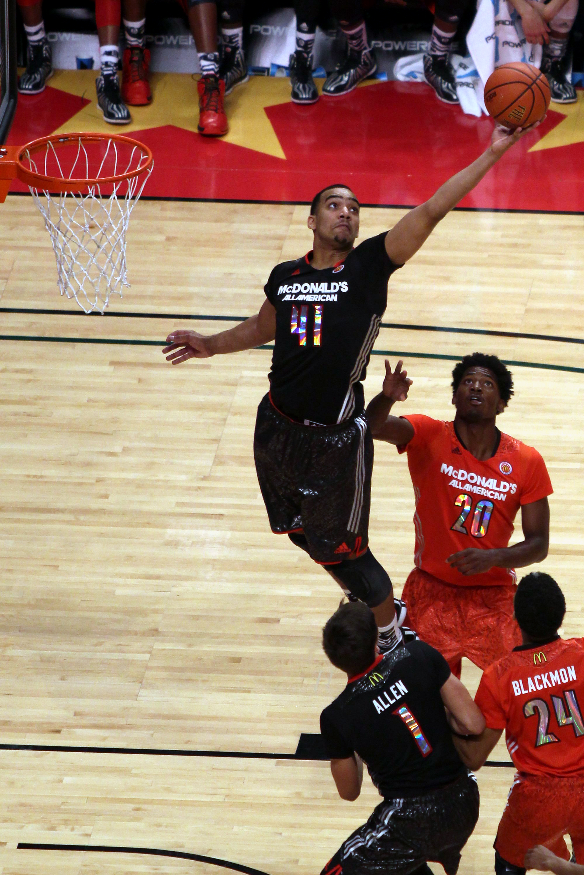 Trey Lyles in front of Justice Winslow in the w:2014 McDonald's All-American Boys Game